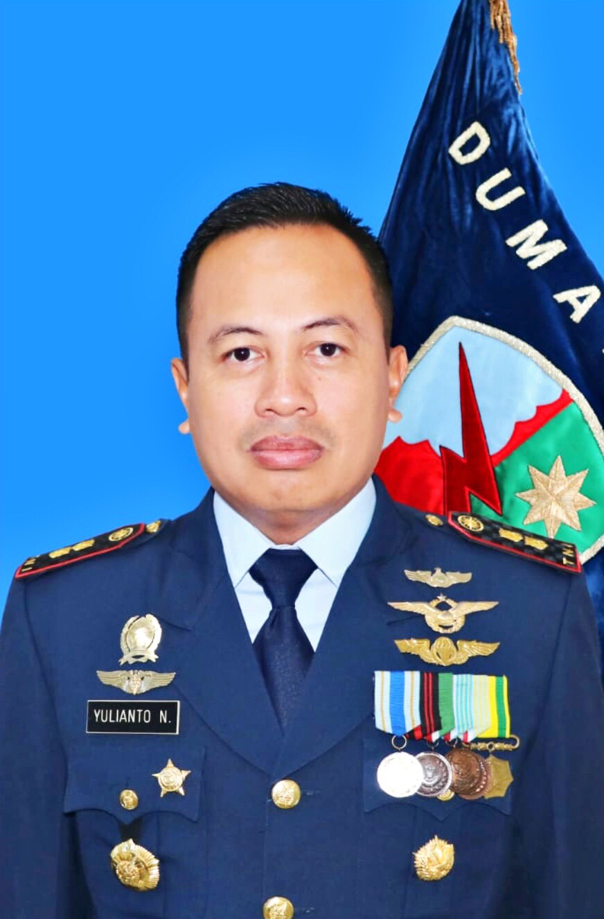 A picture of Yulianto Nurcahyo, Indonesian Air Force